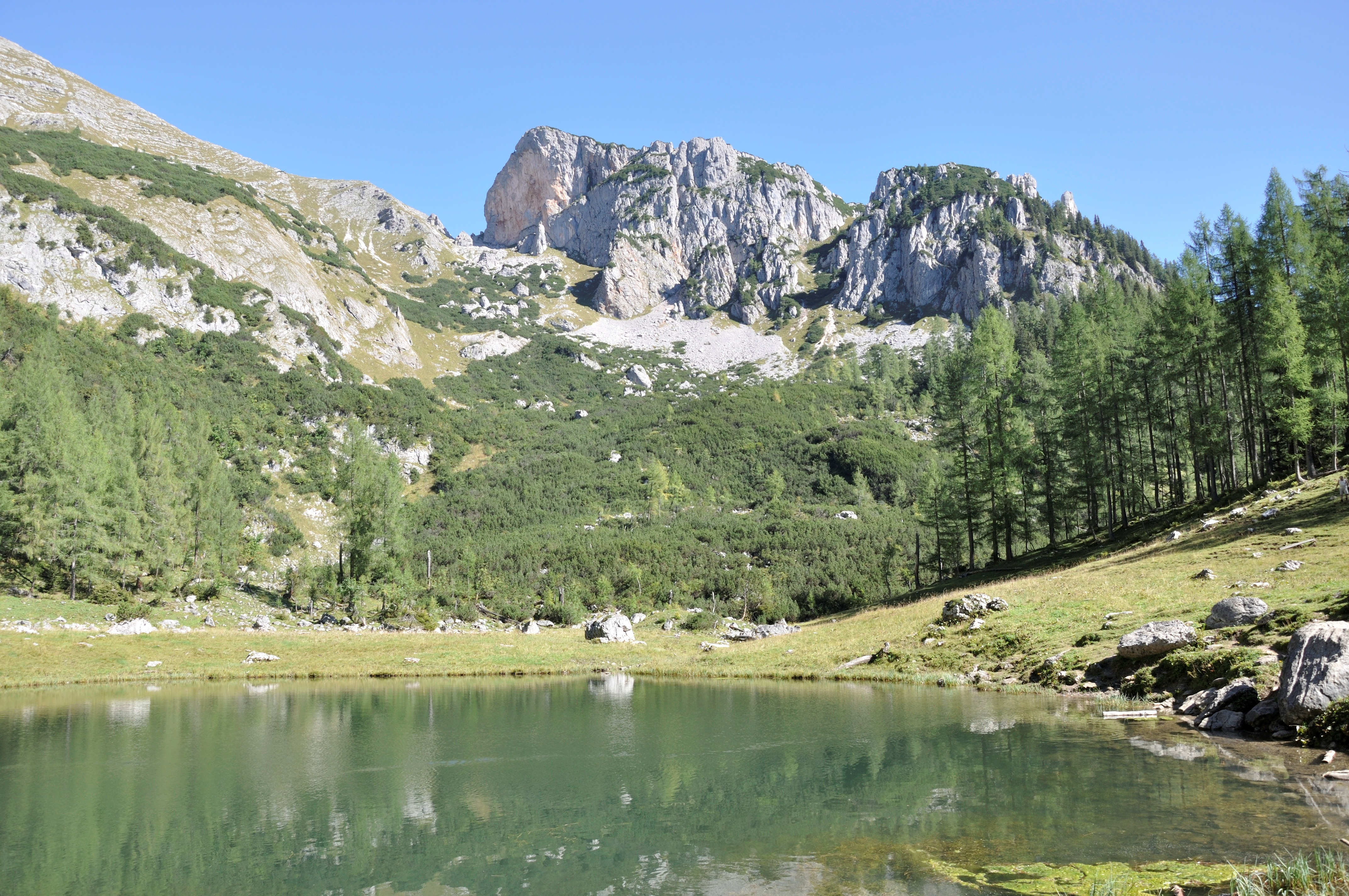 Lake Brunnsteiner (1422 m) with view at Rote Wand (1847 m) on the Wurzeralm in Spital am Pyhrn. This landscape is part of the protected area Warscheneck Süd-Purgstall-Brunnsteiner Kar.